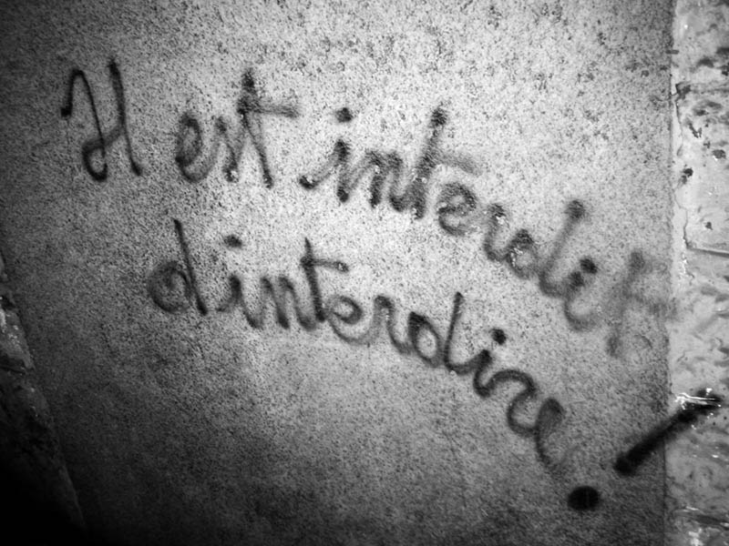 Situationist grafitti, Menton, France, 2006 (the 1968 slogan Il est interdit d’interdire !, “It is forbidden to forbid!”, with missing apostrophe).